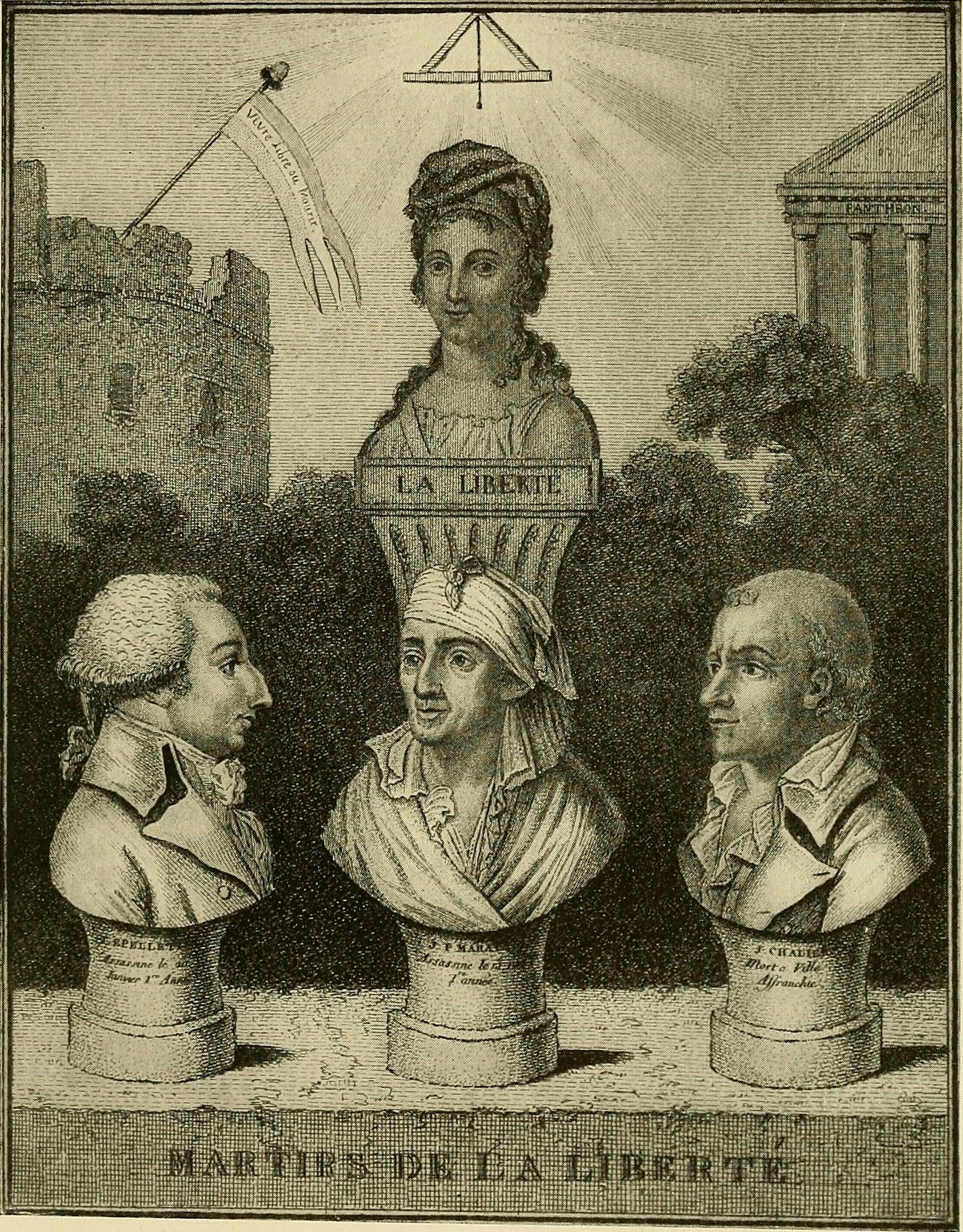 Title: Symbol and satire in the French Revolution Year: 1912 (1910s) Authors: Henderson, Ernest F. (Ernest Flagg), 1861-1928 Subjects: Caricatures and cartoons Publisher: New York, London, G.P. Putnam's Sons Text Appearing Before Image: Plate 158. An emblem of the Reign of Terror. There is tobe no mean between Liberty and Death. harangues like this in the Convention: No morequarter, no more mercy for traitors—(simultan-eous cries from all parts of the hall of No! No!)If we do not get ahead of them they will getahead of us. Let us cast between them and usthe barrier of Eternity . . . The day of justiceand of wrath has come. Billaud-Varennes moved the establishment of a Text Appearing After Image: Plate 159. A representation of Liberty and her great martyrs, Lepelletier,Marat, and Chalier, whose deaths cry for vengeance. 373 374 The French Revolution Revolutionary army, and Danton, in supportinghim, called for bi-weekly assemblies of the sectionsof Paris, each person attending^ to be given fortysous a day and a hundred million francs beingappropriated to supply these citizens with arms—■measures which were immediately passed. TheRevolutionary committees were given power toissue warrants of arrest, as well as to make domi-ciliary visits and seize what weapons they mightfind. The satellites of tyrants (cried the spokesman of a Ja-cobin deputation on September 6th), the ferocious islanders,the tyrants of the North who spread devastation amongus, are less to be feared than the traitors who disquiet uswithin, who sow discord, who arm us one against theother. . . . It is time that Equality wield her scythe aboveall heads. It is time to frighten all conspirators. Yes,Legislators